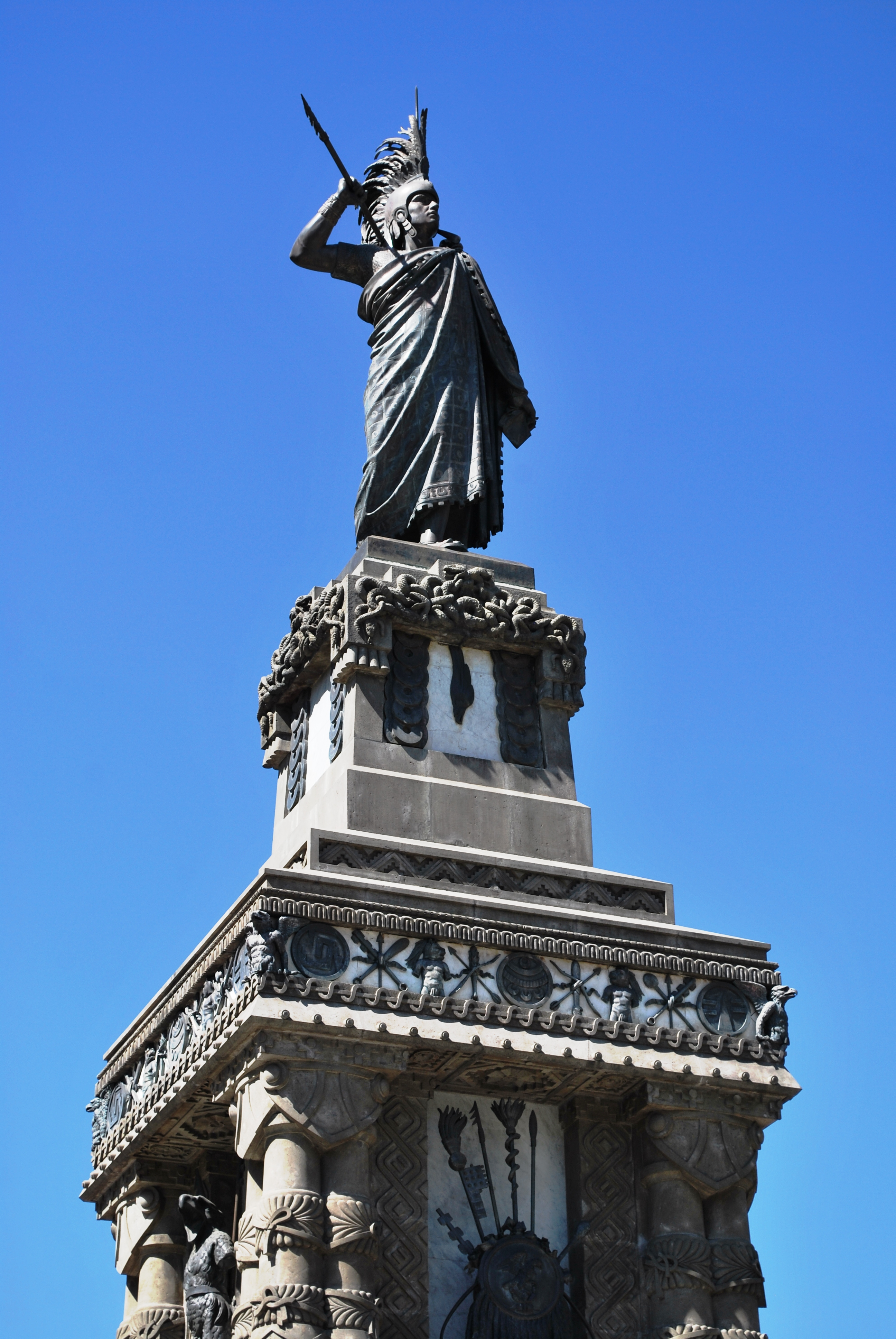 Monument to Aztec Leader Cuauhtémoc on Paseo de la Reforma, Mexico City